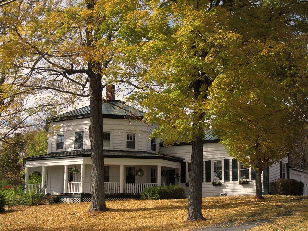 Like the Shute Octagon House, it was built by Boss Jones in the 1850’s. Like the Shute Octagon House, it was built by Boss Jones in the 1850’s. Both the Shute and Jenkins octagon houses are examples of the Octagon Mode made famous in mid-nineteenth century by Orson S. Fowler, who promoted the style as “healthier” than traditional buildings because of its ample light and ventilation. Photo by Wendy Voelker